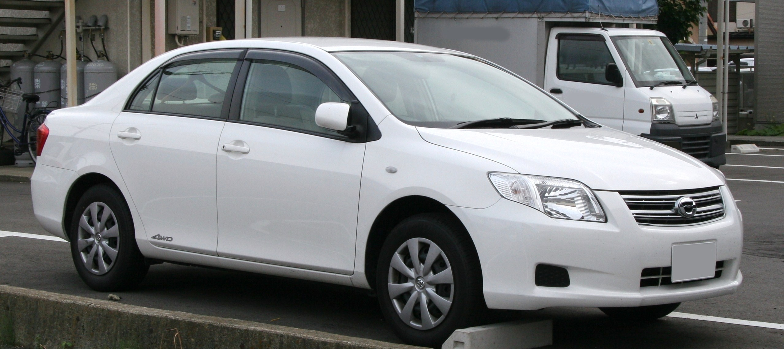 Toyota Corolla Axio